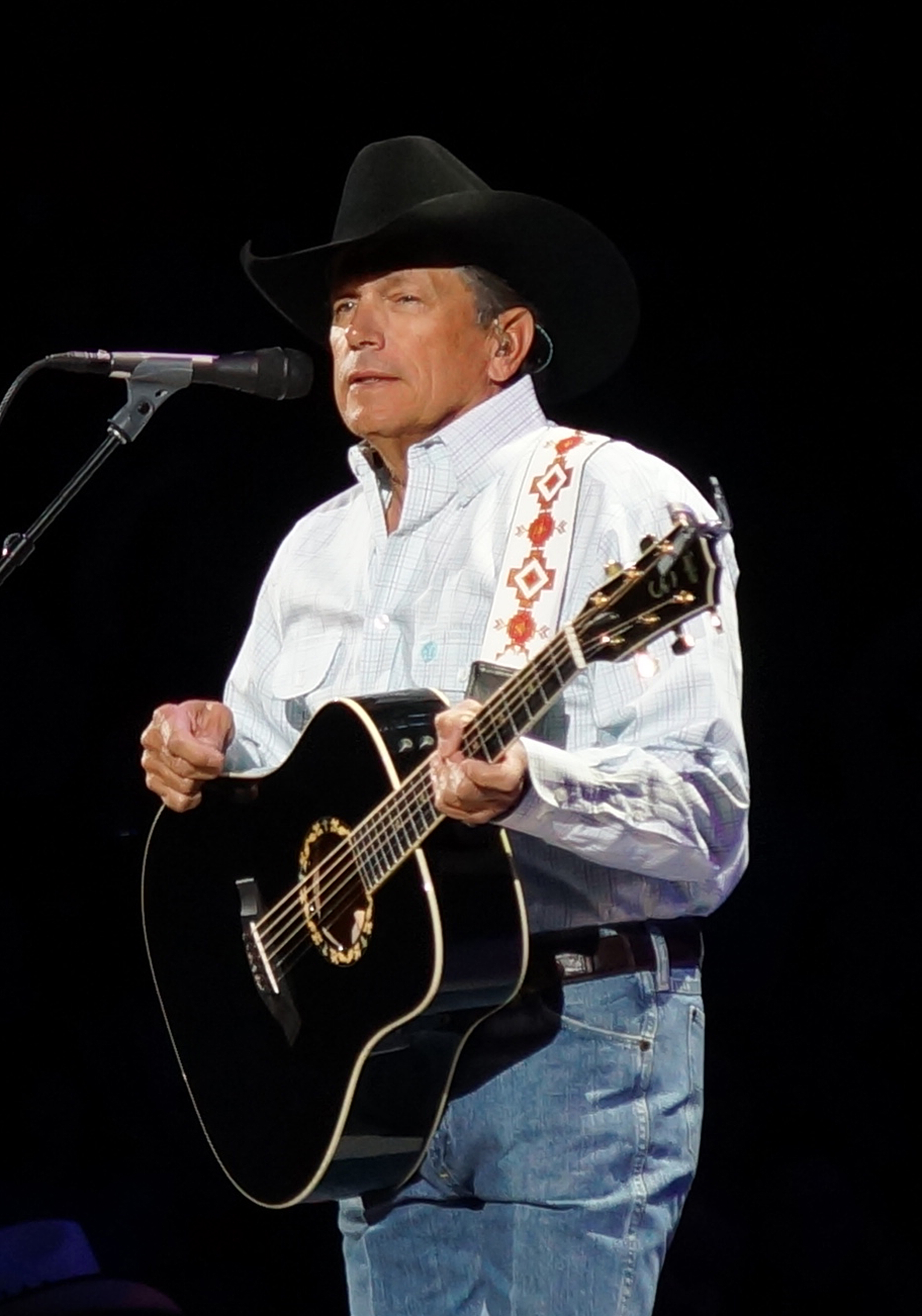 George Strait performing live at the Prudential Center in Newark, New Jersey, USA, March 1, 2014